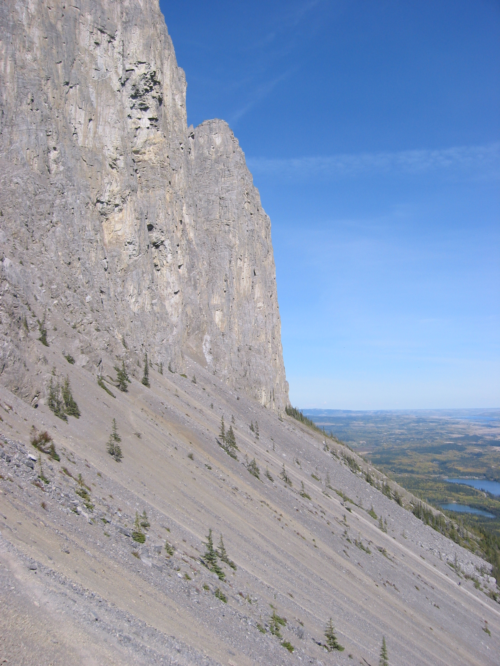 Scree slope at the bottom of Yamnuska, Alberta, Canada. The slope forms the top of ski runs